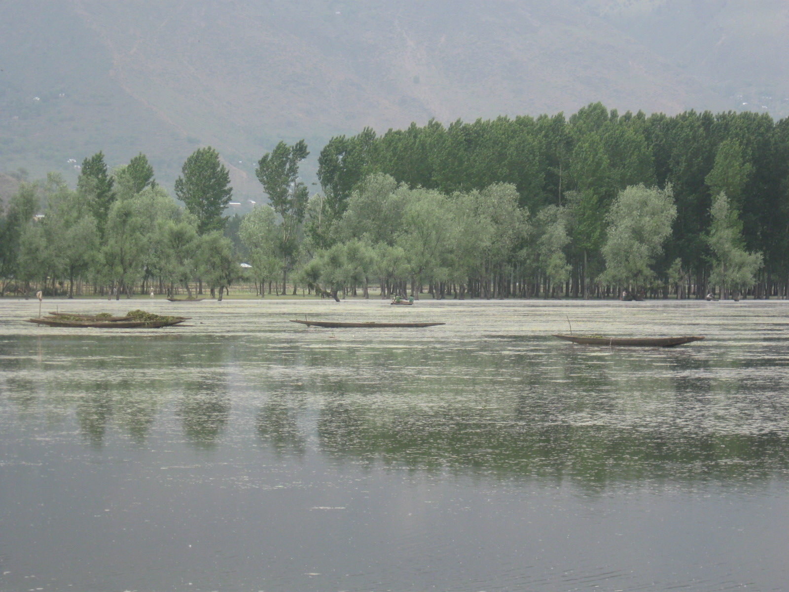 A view of the Wullar Lake located in Bandipora district of Kashmir. Some boats are seen floating in the lake.